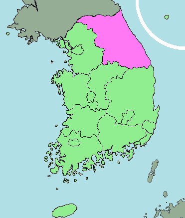 area map of Gangwon